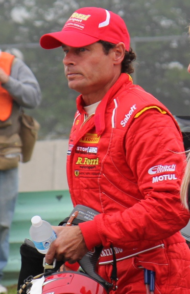 Anthony Lazzaro (racing driver) before the Perilli World Challenge race at Road America.